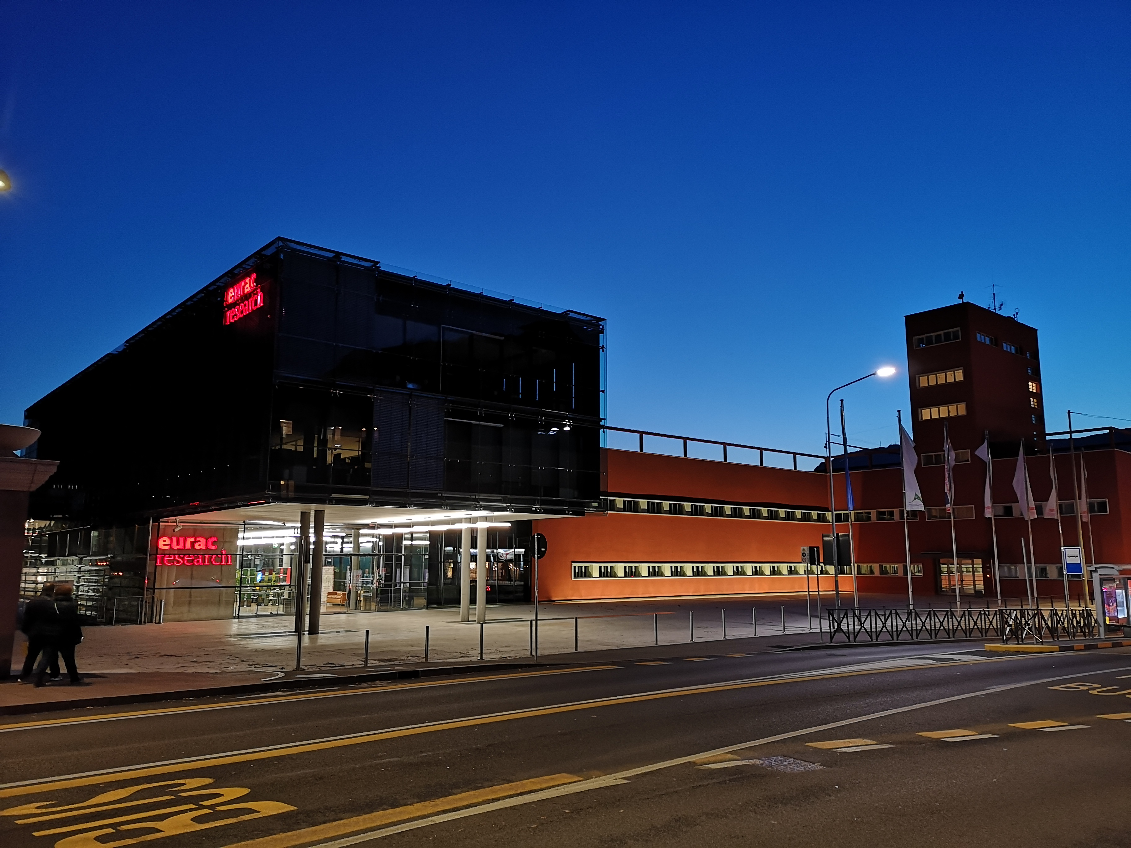 The Eurac Bozen-Bolzano premises by night 2019